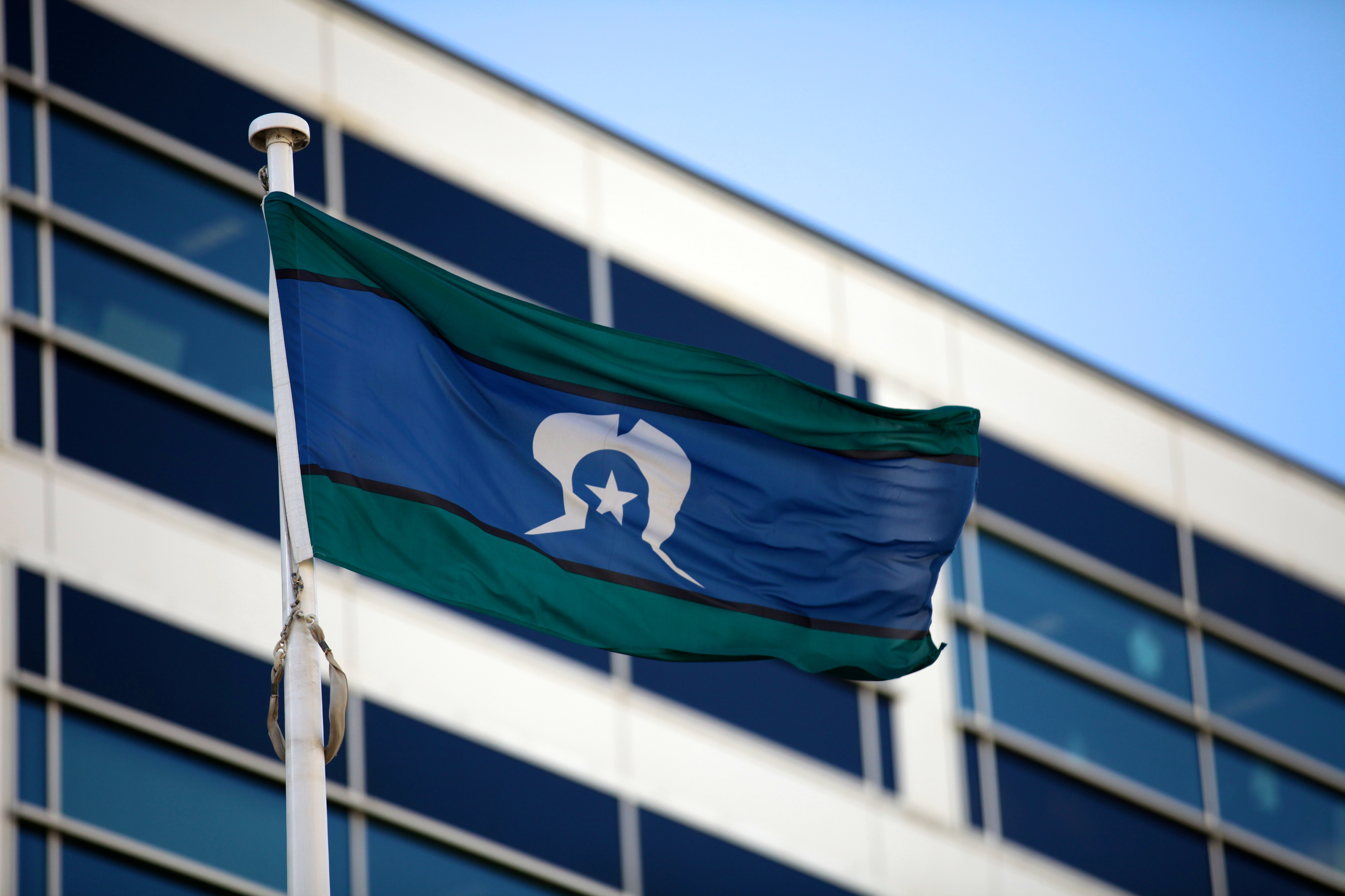 A flag raising ceremony was held outside the National offices of the Department of immigration and Citizenship. NAIDOC week is a celebration of Aboriginal and Torres Strait Islander cultures and an opportunity to recognise the contributions of Indigenous Australians in various fields.